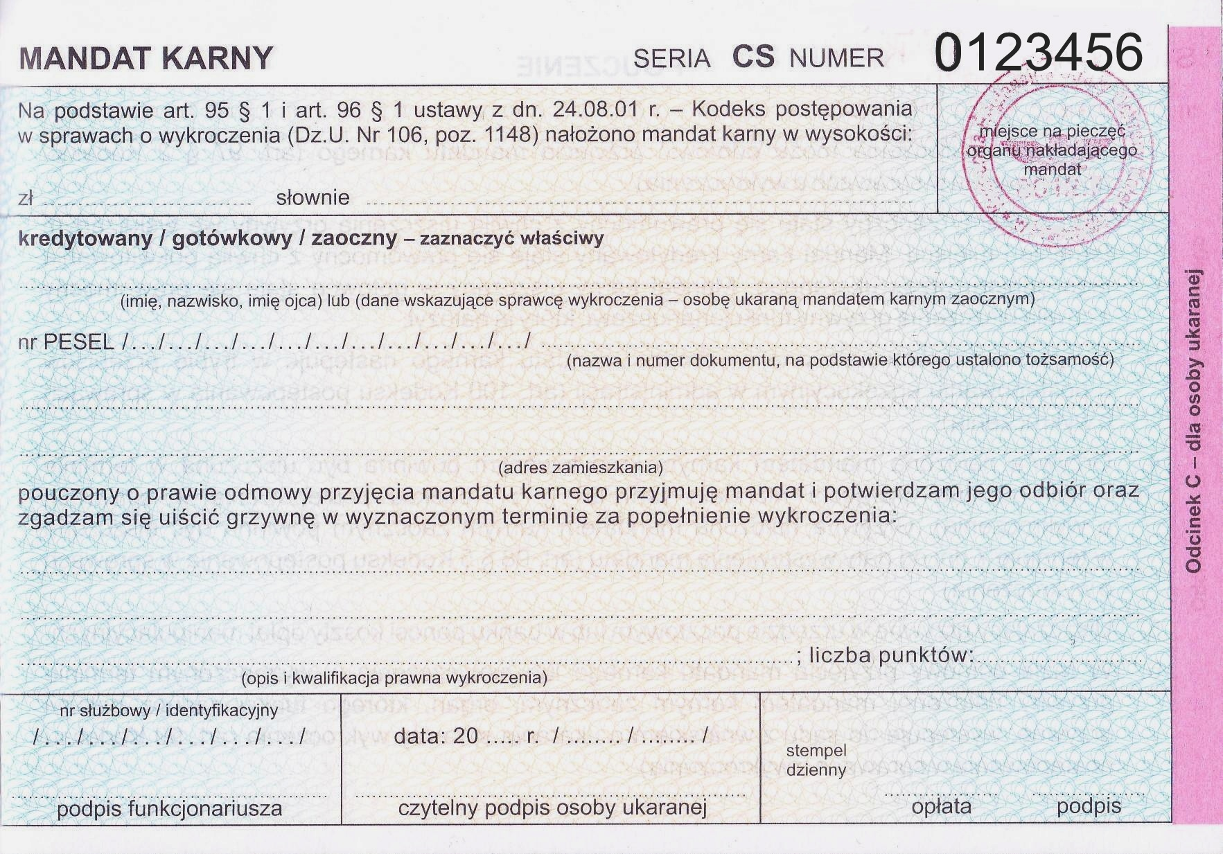 Polish fine ticket